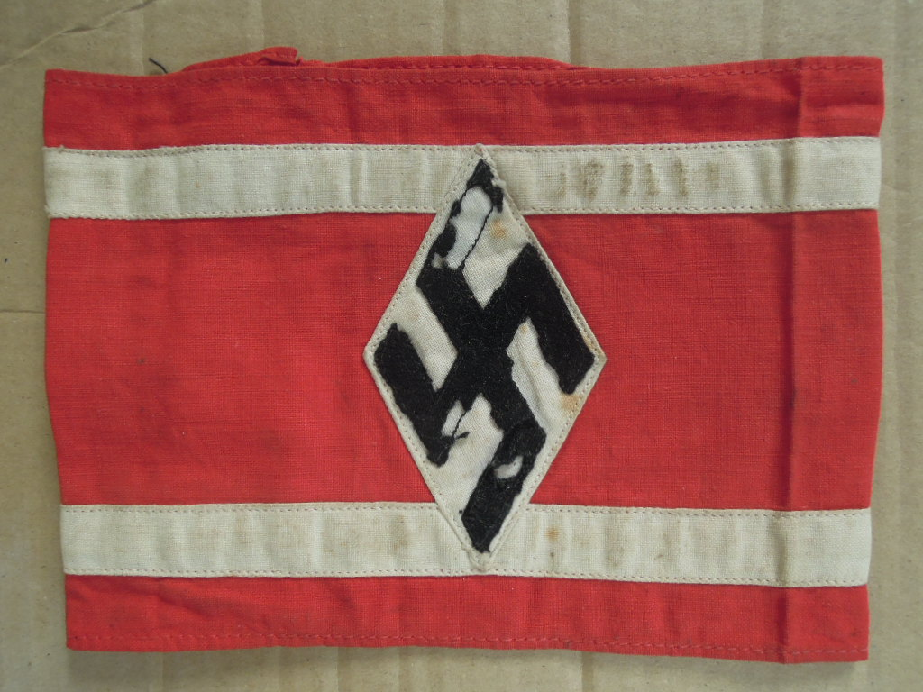 NPEA student swastika armband